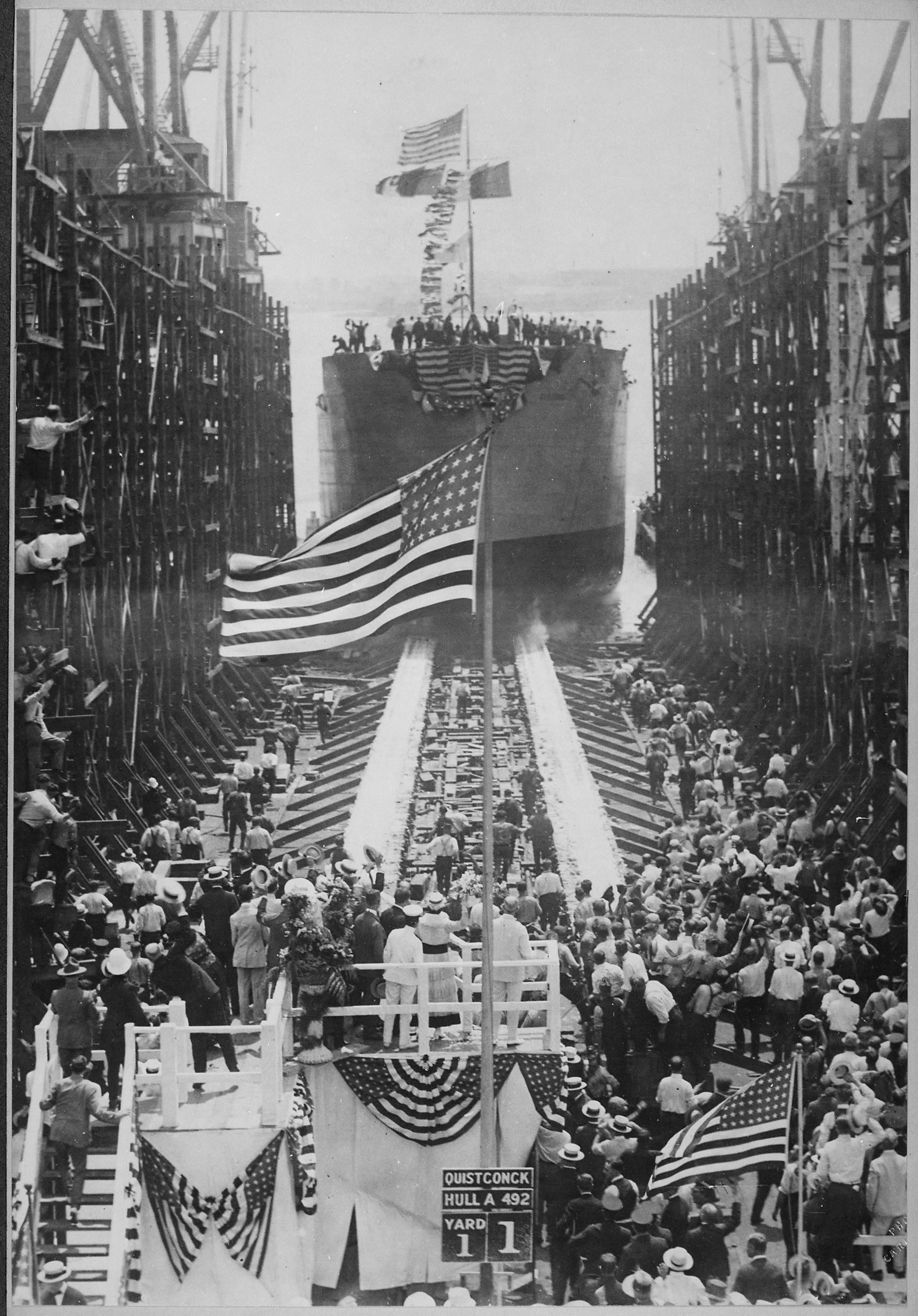 Launch of the Design 1022 Hog Islander SS Quistconck on 5 August 1918.